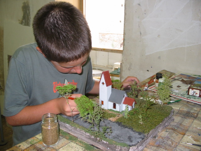 A child finishing a scale model during an initiation week